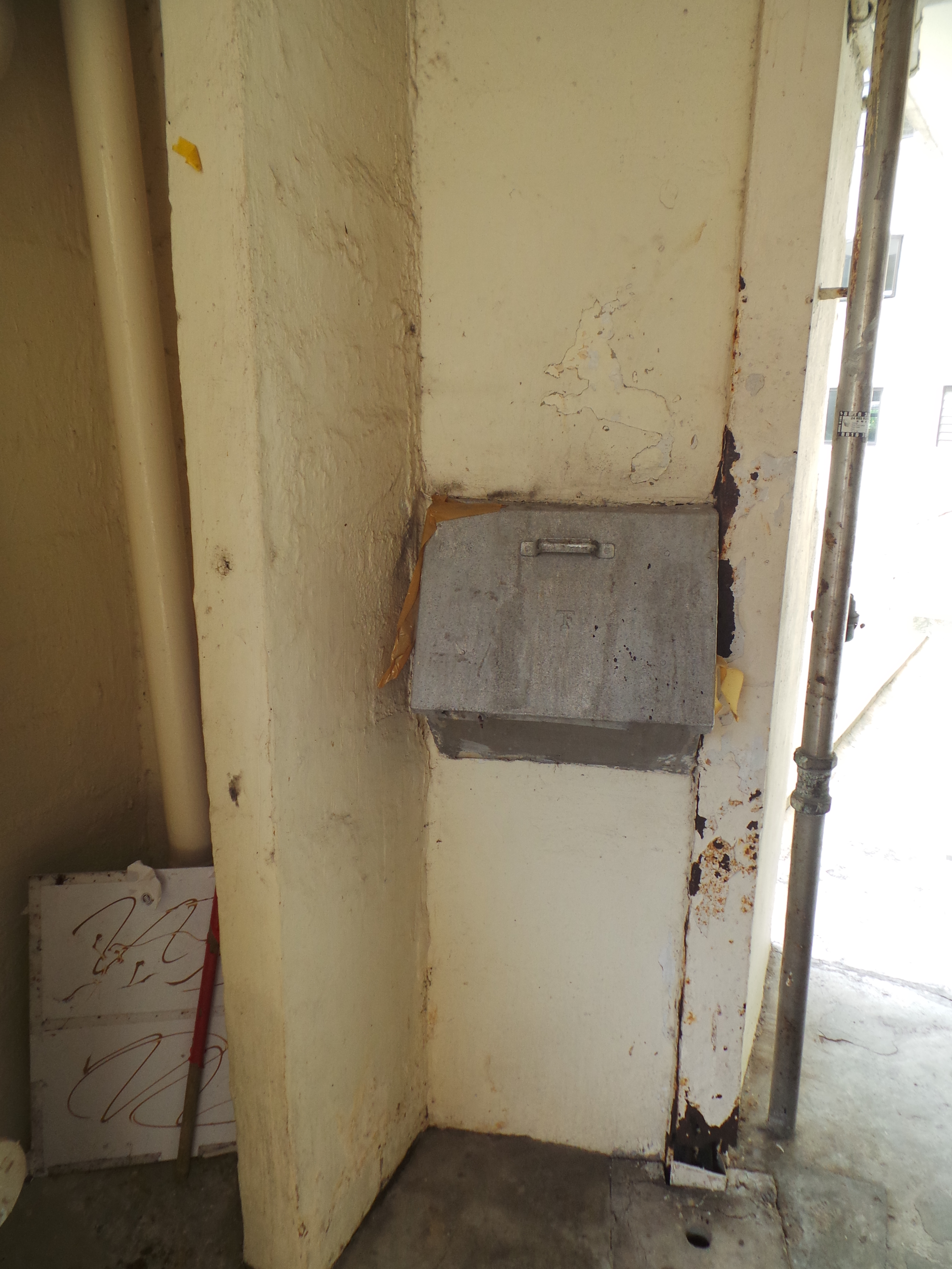 Rubbish Chutes at Dakota